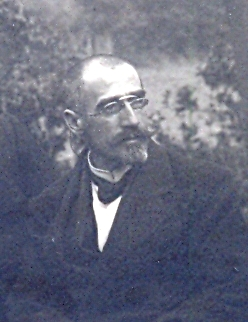 Bulgarian archeologist Prof. Gavril Katsarov (1874-1958)